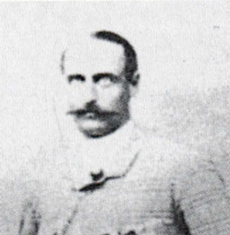 Herbert Fortescue Lawford, British tennis player, tennis Wimbledon singles Tennis champion 1887